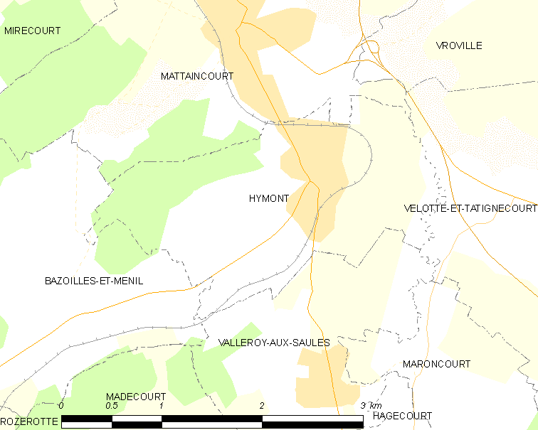 Map of French municipality Hymont